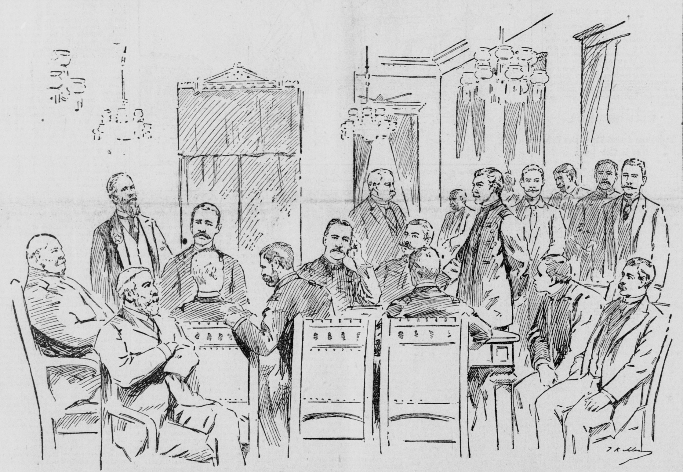 Newspaper sketch of the military tribunal after the 1895 Counter-revolution in Hawaii, in former throne room of 'Iolani palace. THE COURT-MARTIAL OF THE ROYALIST PRISONERS IN THE OLD THRONE ROOM OF THE PALACE. Colonel Whiting sits at the head of the table as President. Captain Kinney, Judge Advocate, is at the foot. On one side are Captain Zeigler, Captain Pratt and Lieutenant Jones. Facing them are Lieutenant-Colonel Fisher, Captain Camara and Captain Wilder. From a sketch made, in Honolulu expressly for the "Call."